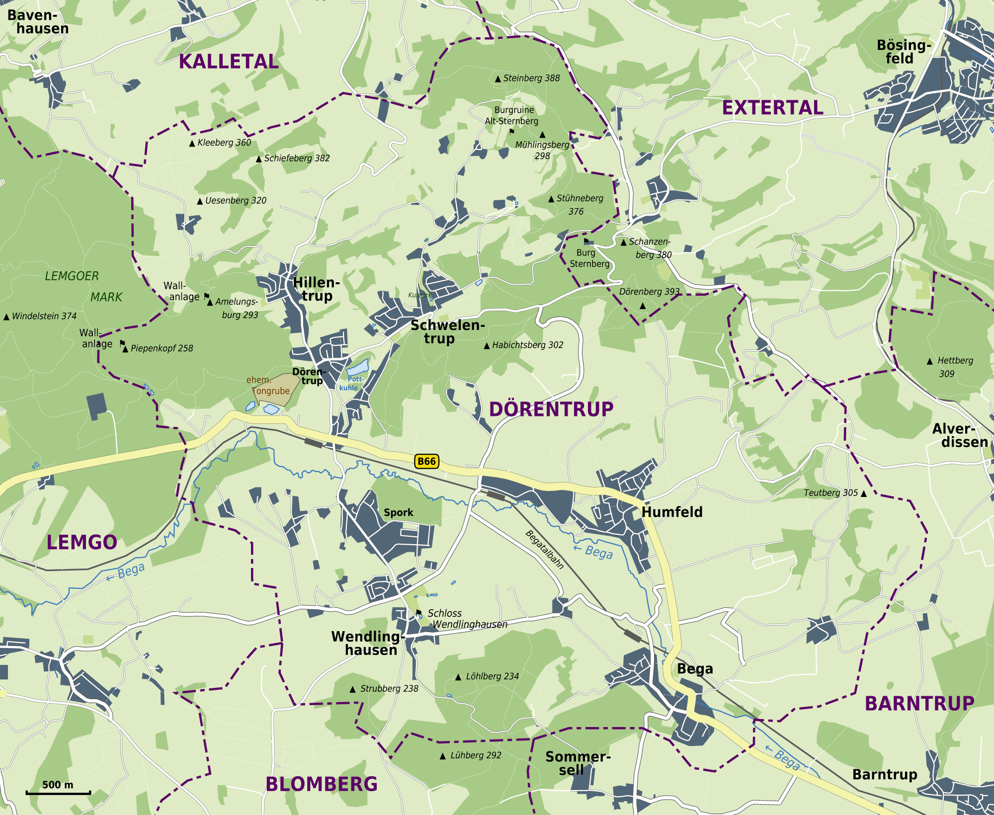 Map of Dörentrup, District of Lippe, North Rhine-Westphalia, Germany.